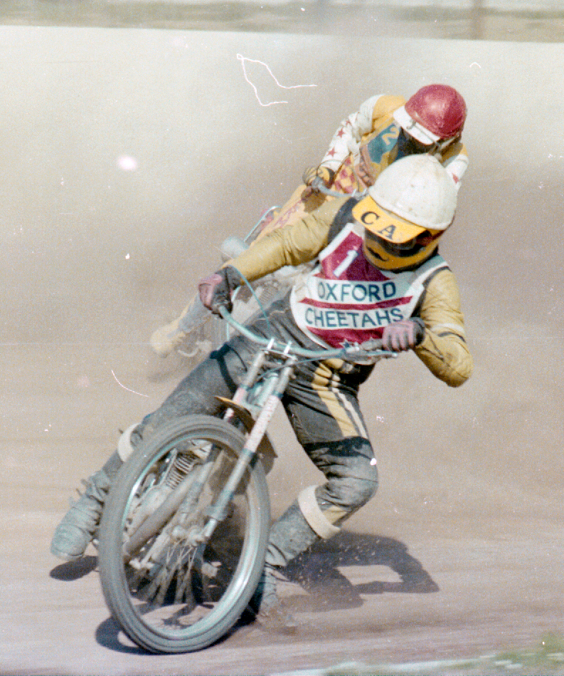 Eastbourne Eagles at home to Oxford Cheetahs Eastbourne_Eagles